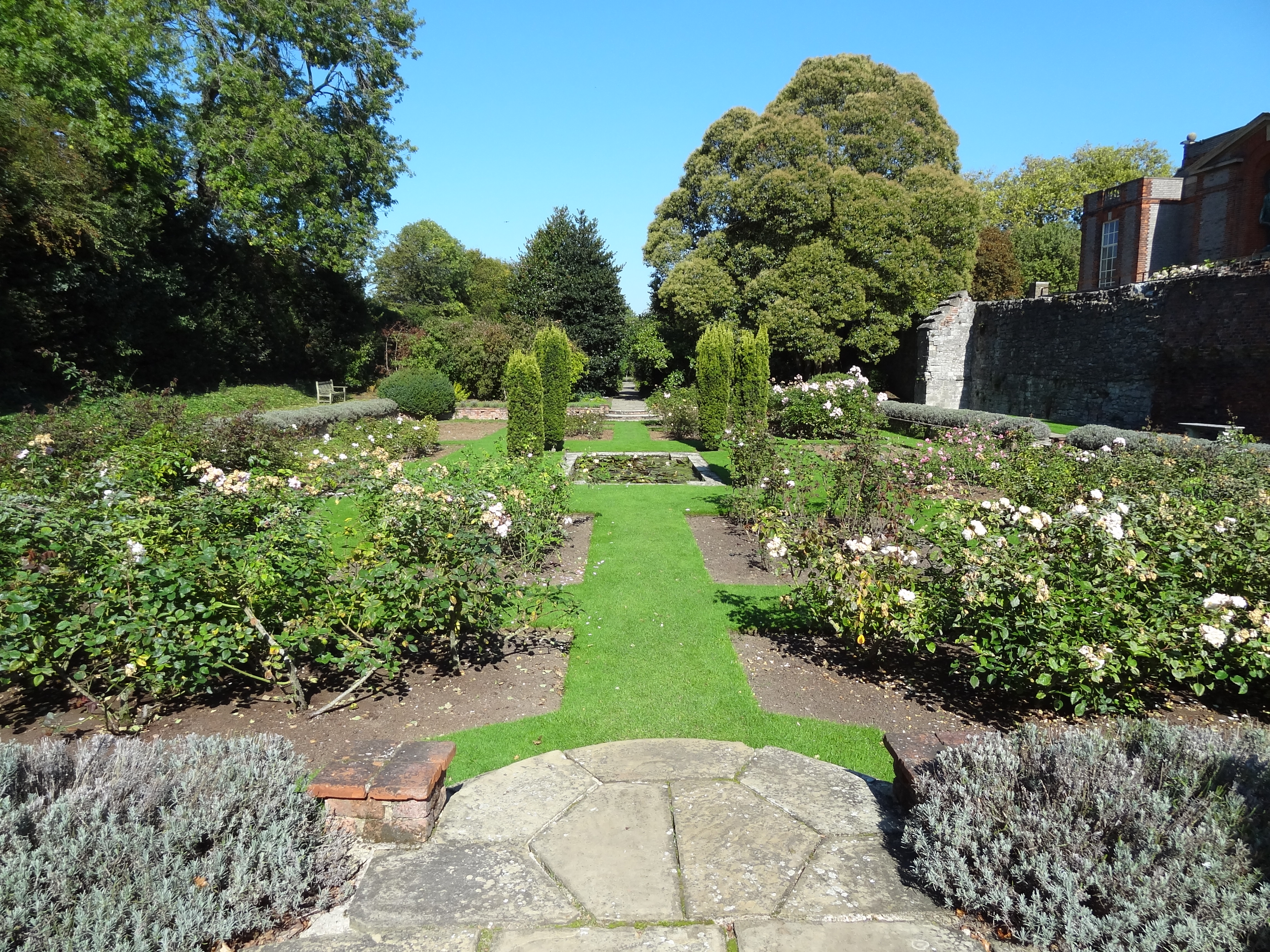 Eltham Palace garden, Greenwich, London